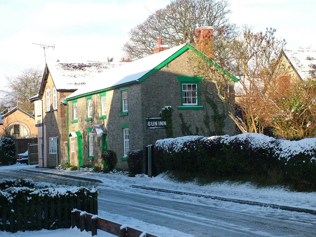 The Sun Inn, Leintwardine